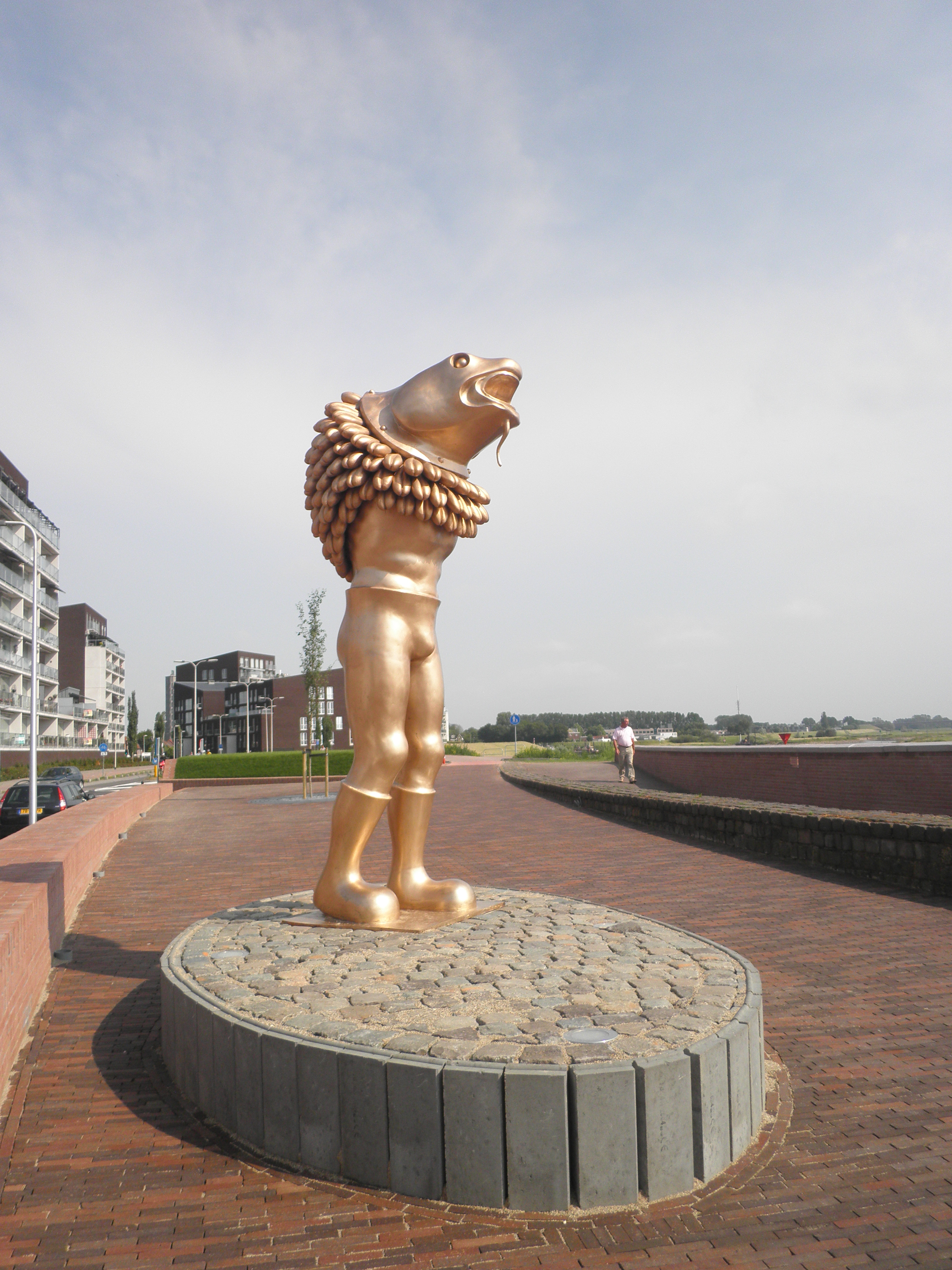 De Visman (Fisman), a bronze statue by Dedden and Keizer placed in 2011 at the renovated Pothoofdkade quay in Deventer, the Netherlands